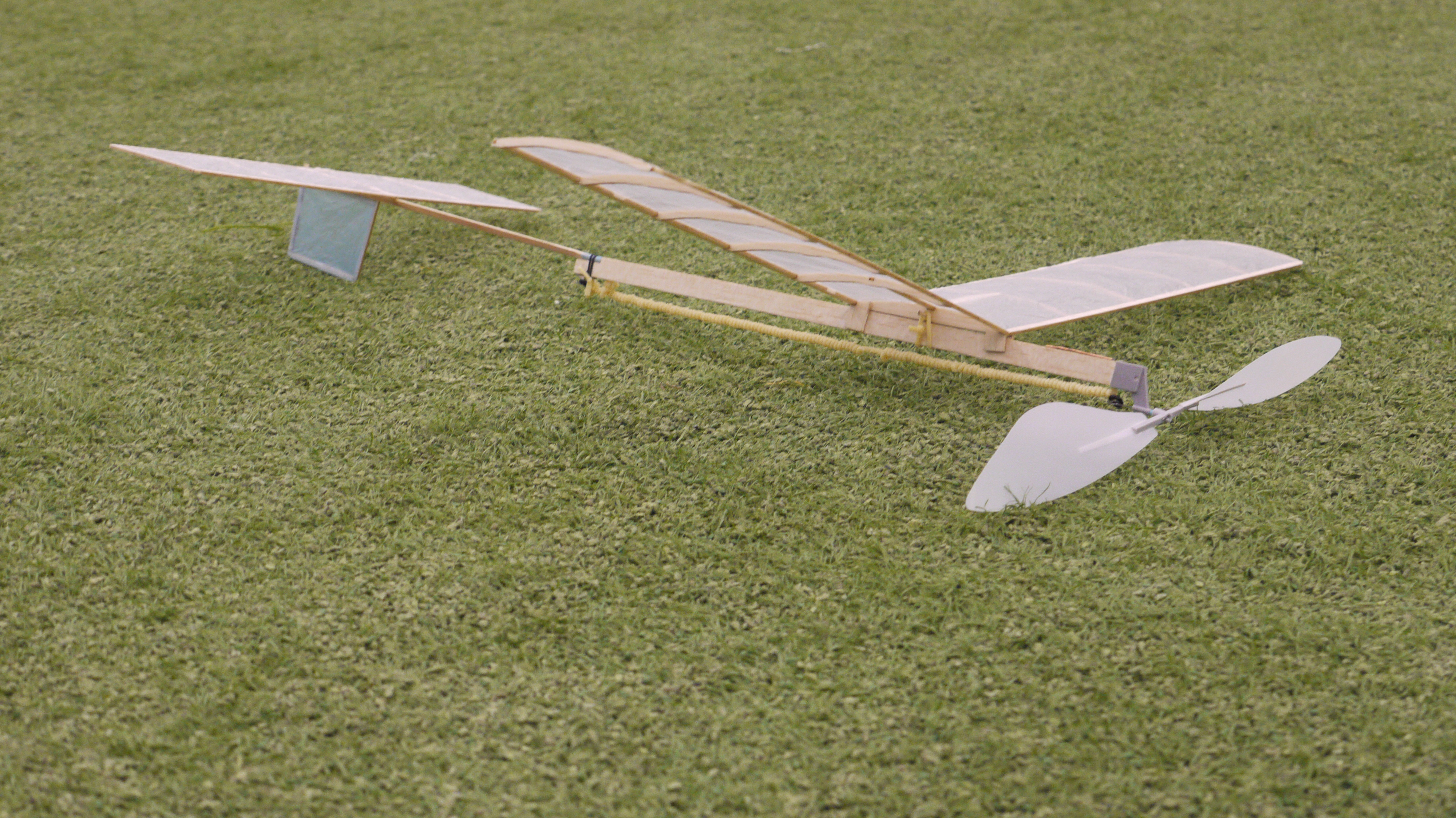 Robber-band powered peruslennokki free flight model in Hämeenlinna, Finland november 2014.